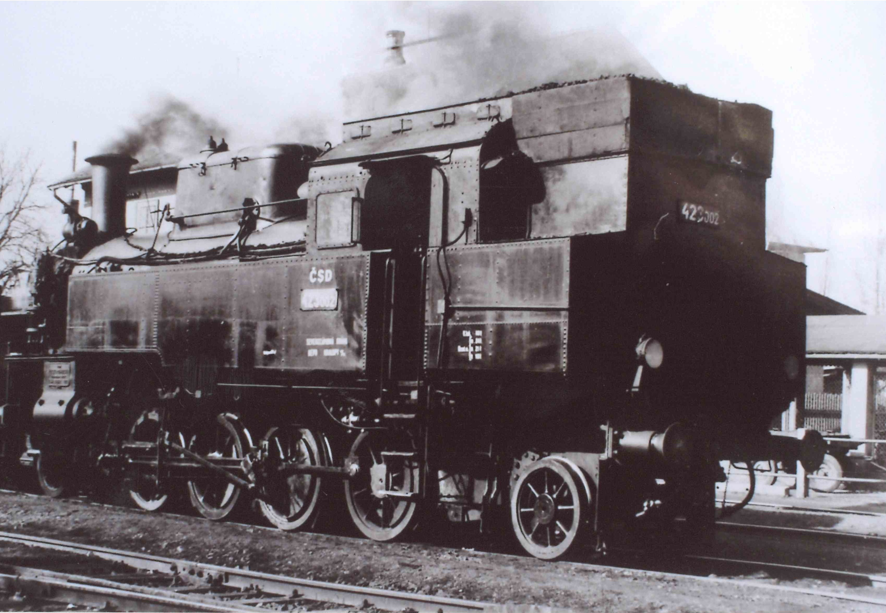 locomotive 423.002 in Brandys nad Labem